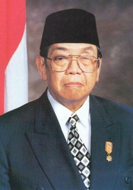 Abdurrahman Wahid, the 4th president of Indonesia.